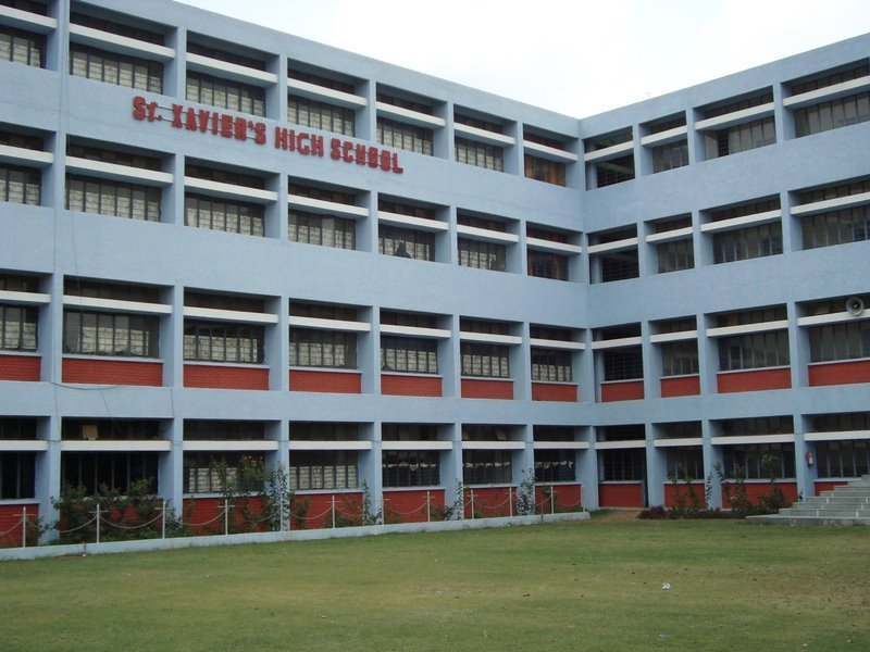 St. Xavier's High School Bathinda